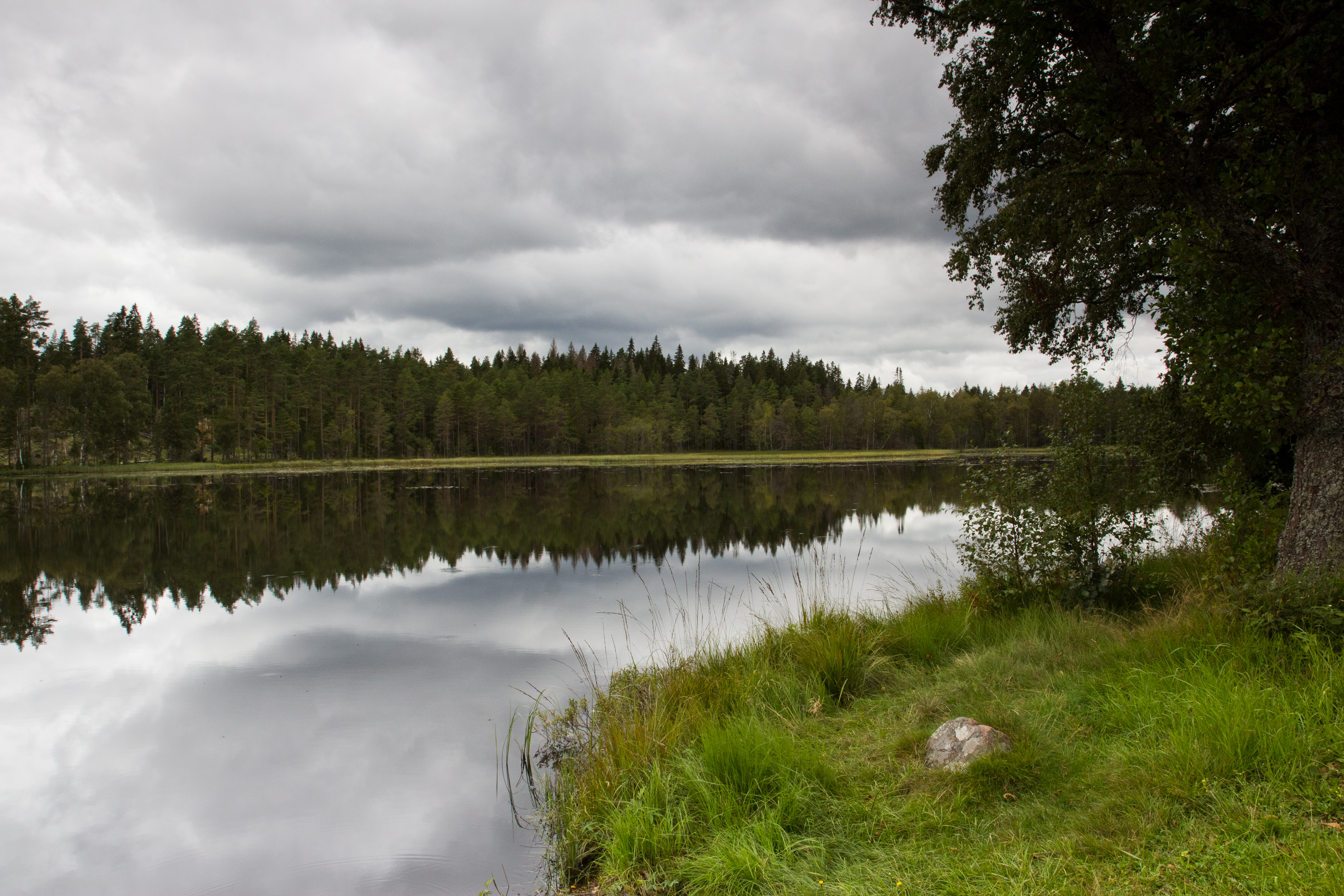 Våraskruvsjön in Våraskruv naturreservat